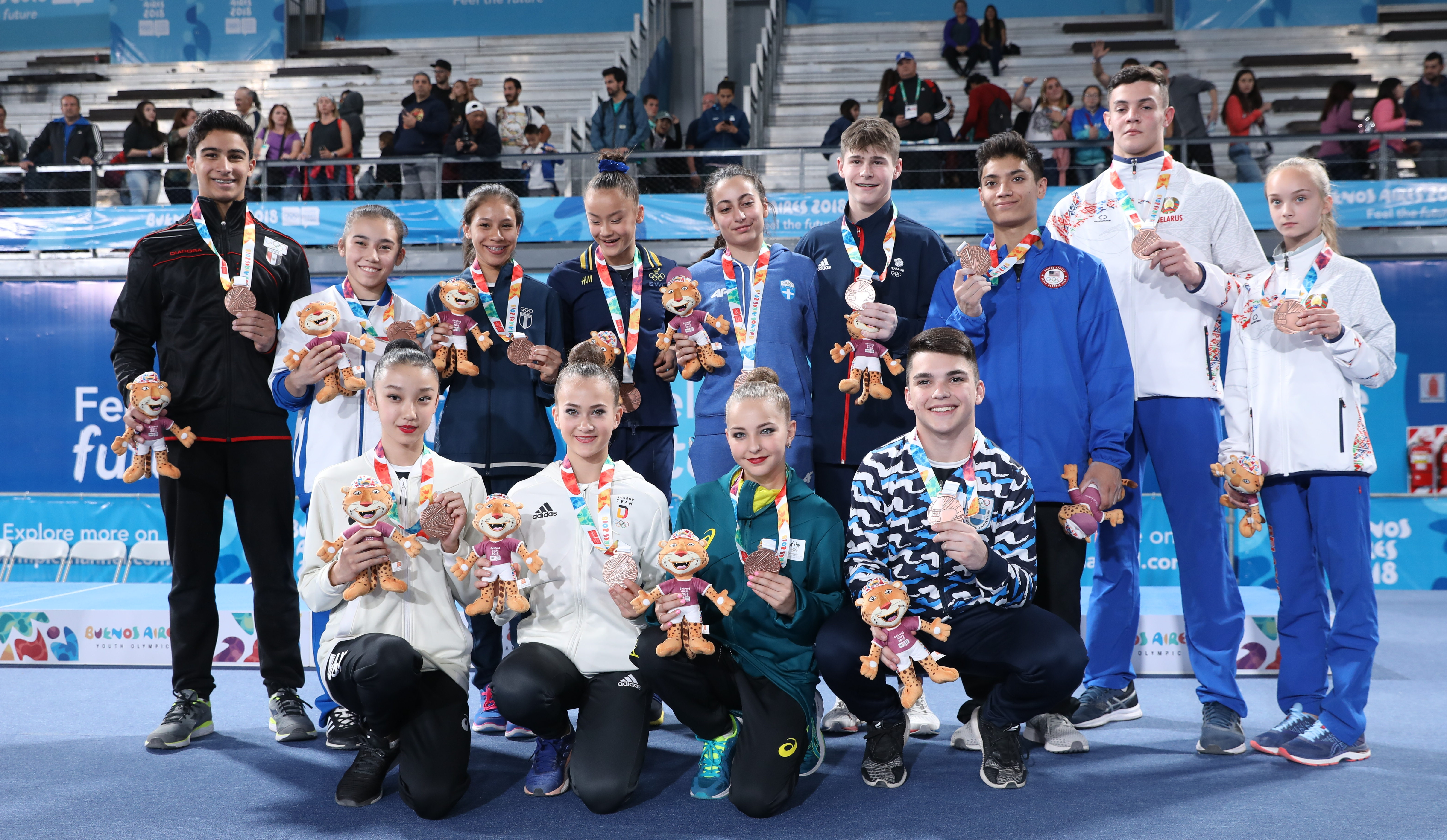 Gymnastics mixed multi-discipline team competition: Victory ceremony